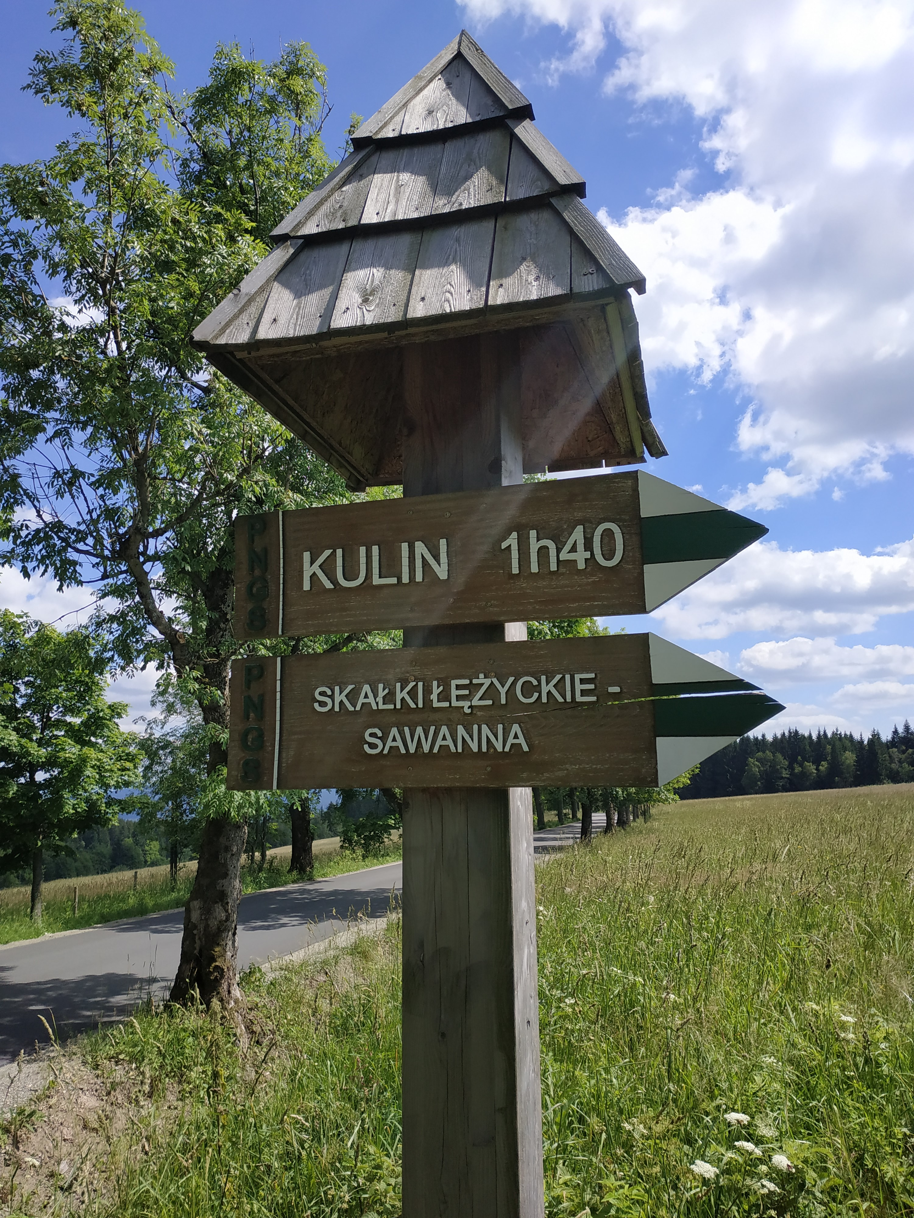 Łężyckie Skałki, called "African Savanna" - montane meadow in Stołowe Mountains